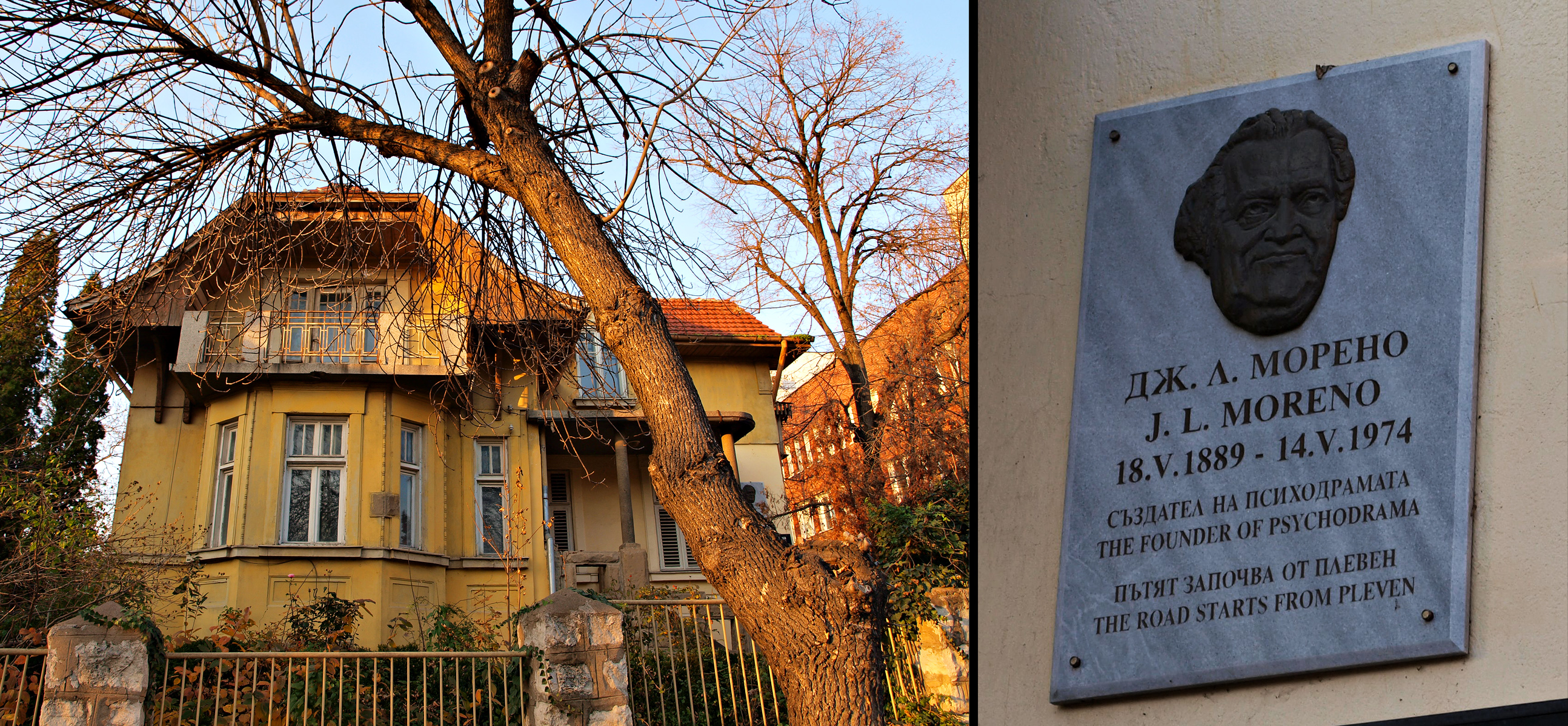 The ancestral home of Austrian-American psychiatrist and psycho sociologist Jacob L. Moreno in Pleven, Bulgaria, and a close-up view of the commemorative plaque